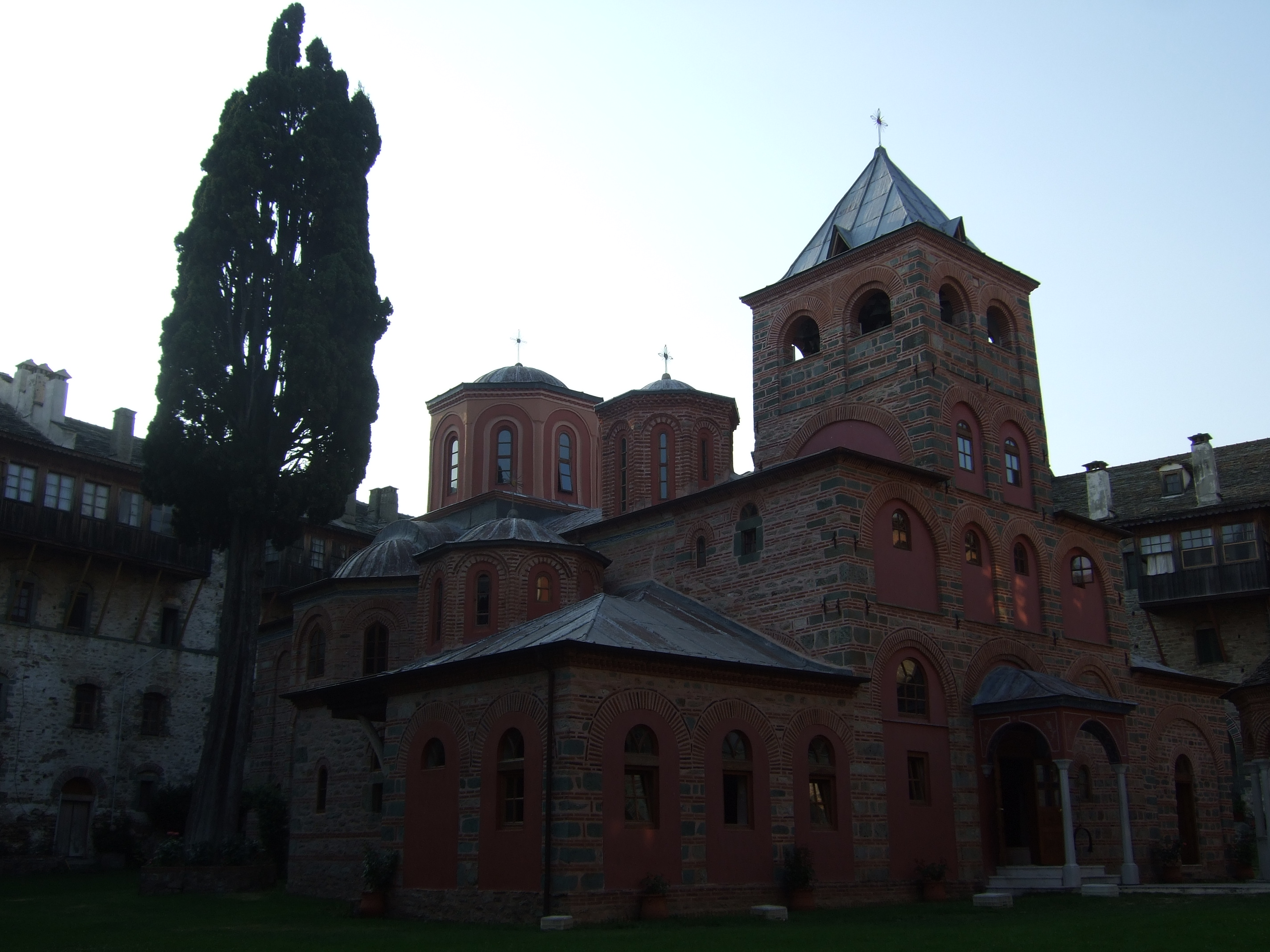 Mount Athos: Monastery Filotheou: Katholikon